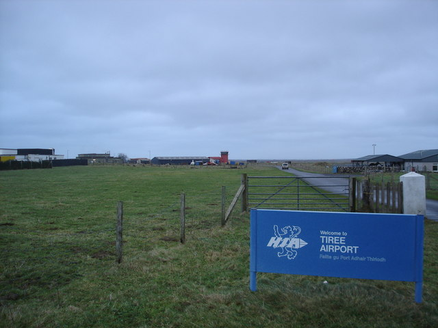 Airport complex Tiree